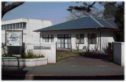 Tokyo Juvenile Classification Home in Nerima Ward, Tokyo, Japan